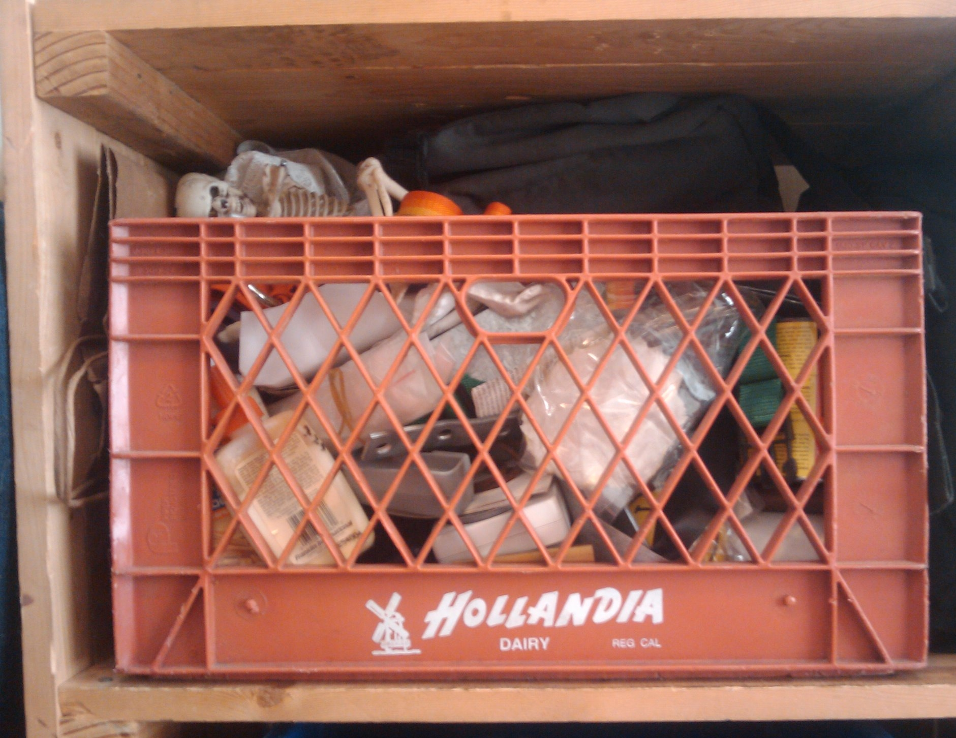 milk crate used for storage